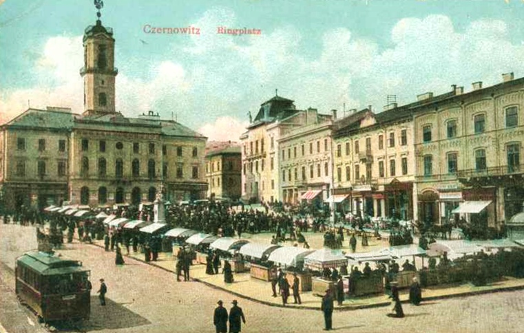 Chernivtsi, western Ukraine, old prewar postcard.